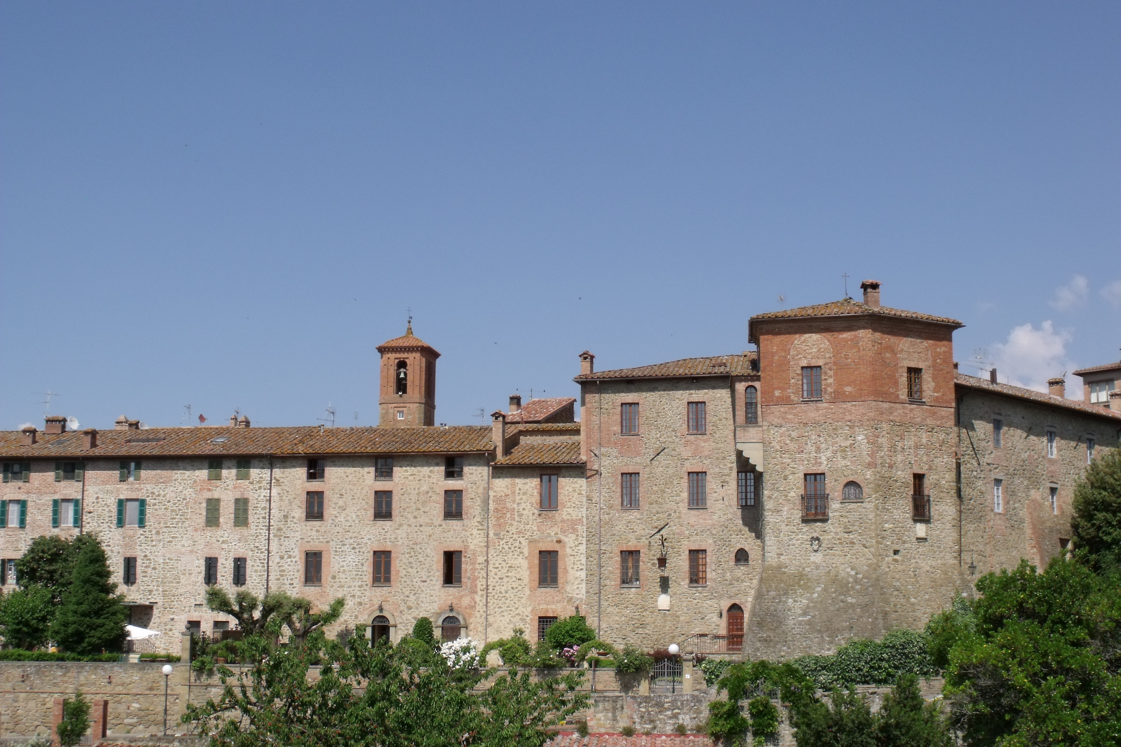 City of Paciano, Province of Perugia, Umbria, Italy